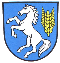 Coat of arms of St. Johann (Württemberg)